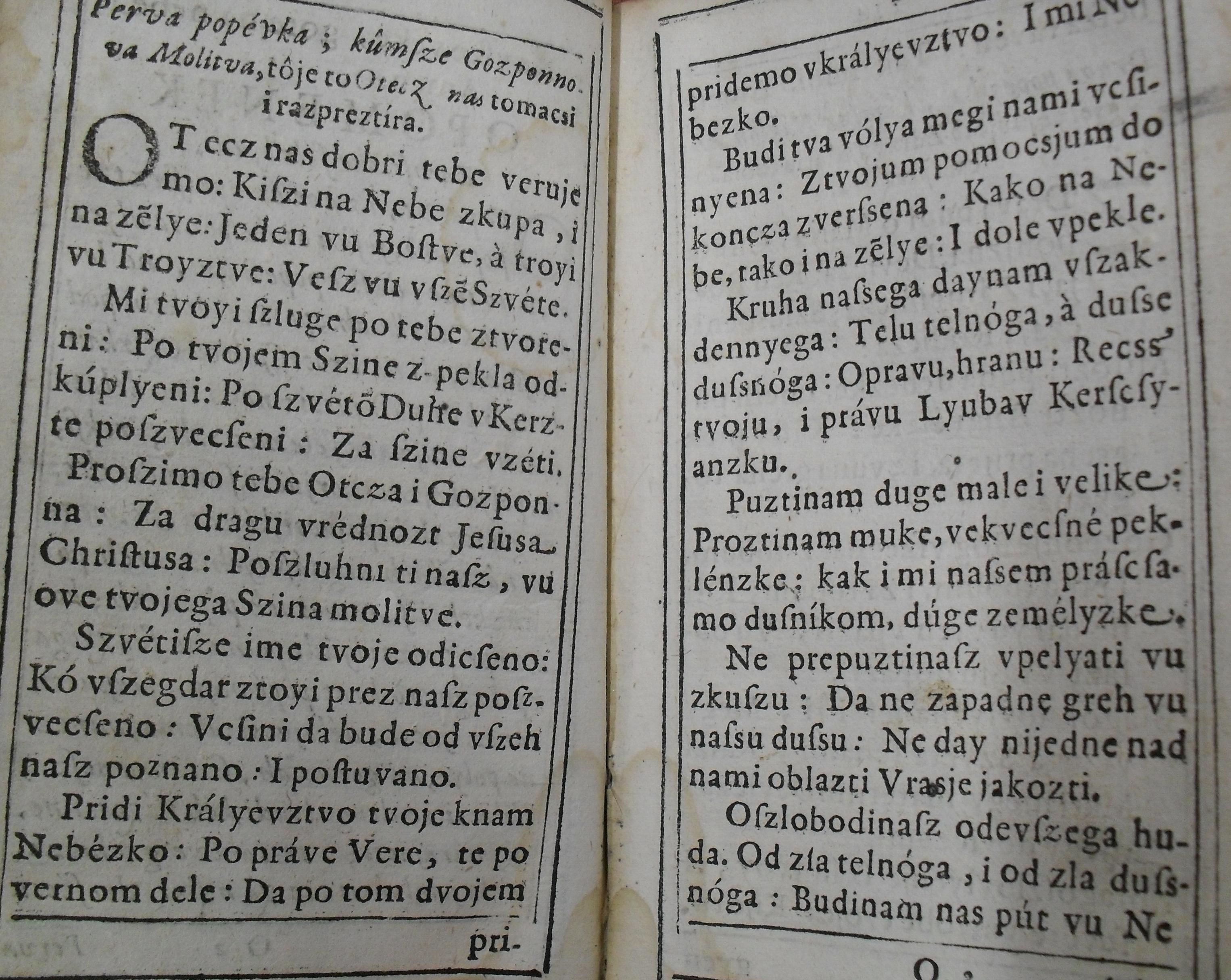 Kajkavian Croatian pray from 1651 (Nikola Krajačević: Szveti evangeliomi)